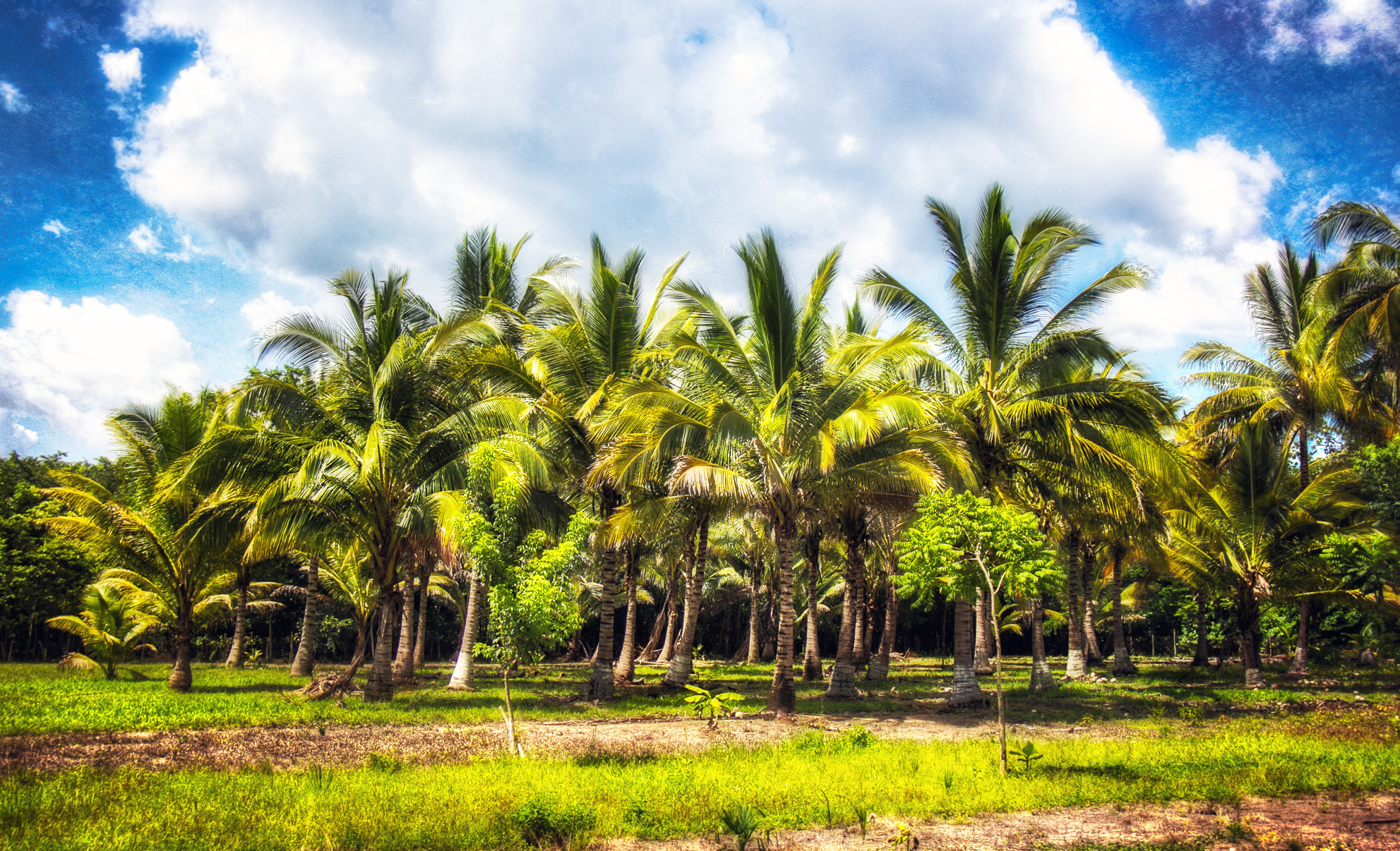 This image is of tree plantation in eluru.This is coconut tree plantation.